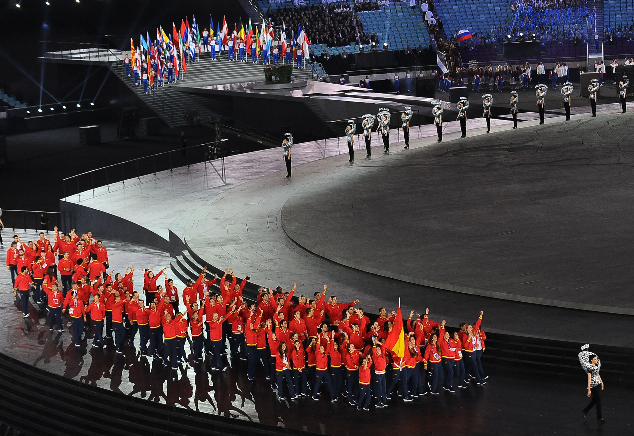 The opening ceremony of the First European games